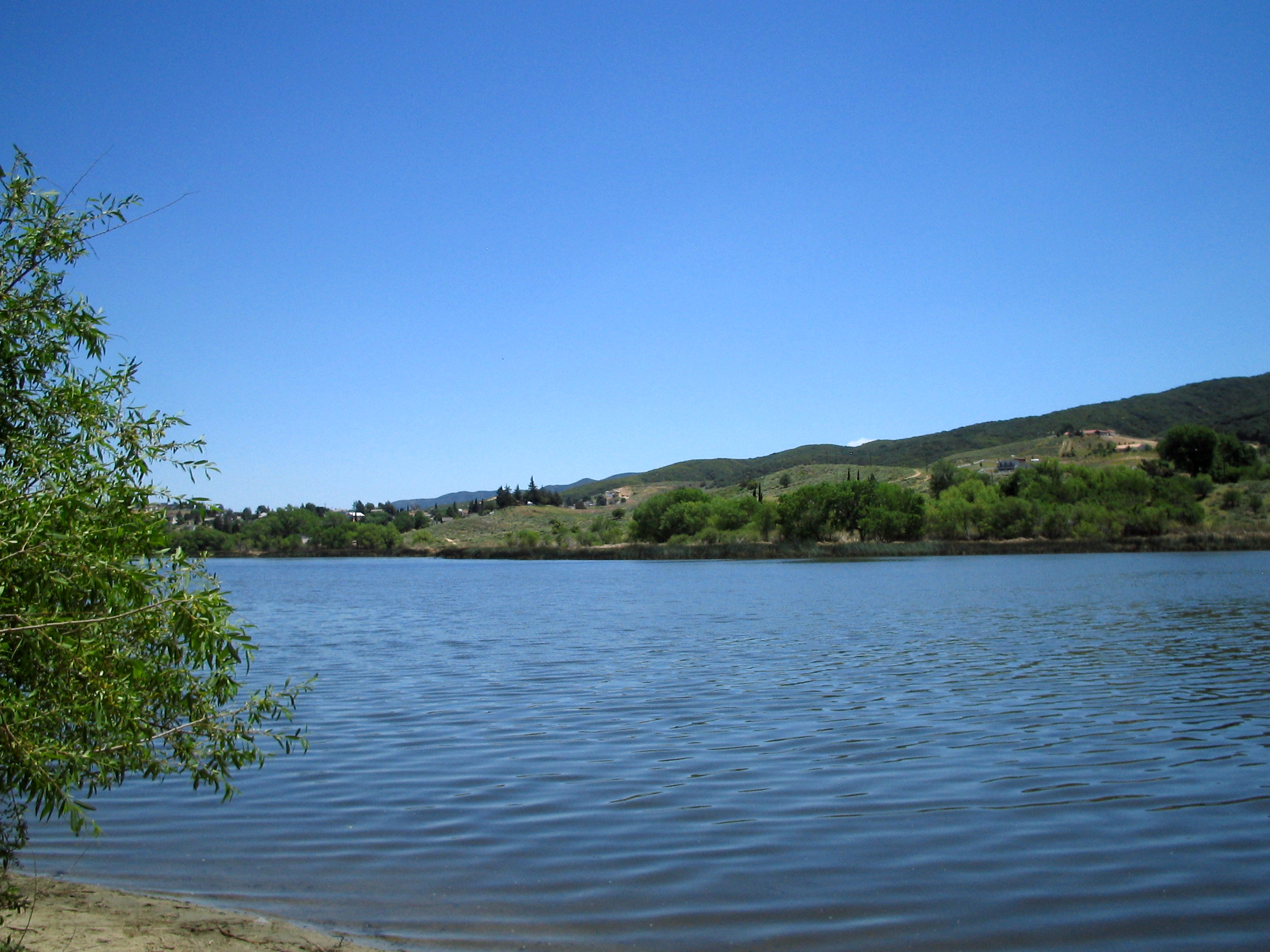 Elizabeth Lake — in the Sierra Pelona Mountains, west of Lancaster, Los Angeles County, Southern California.